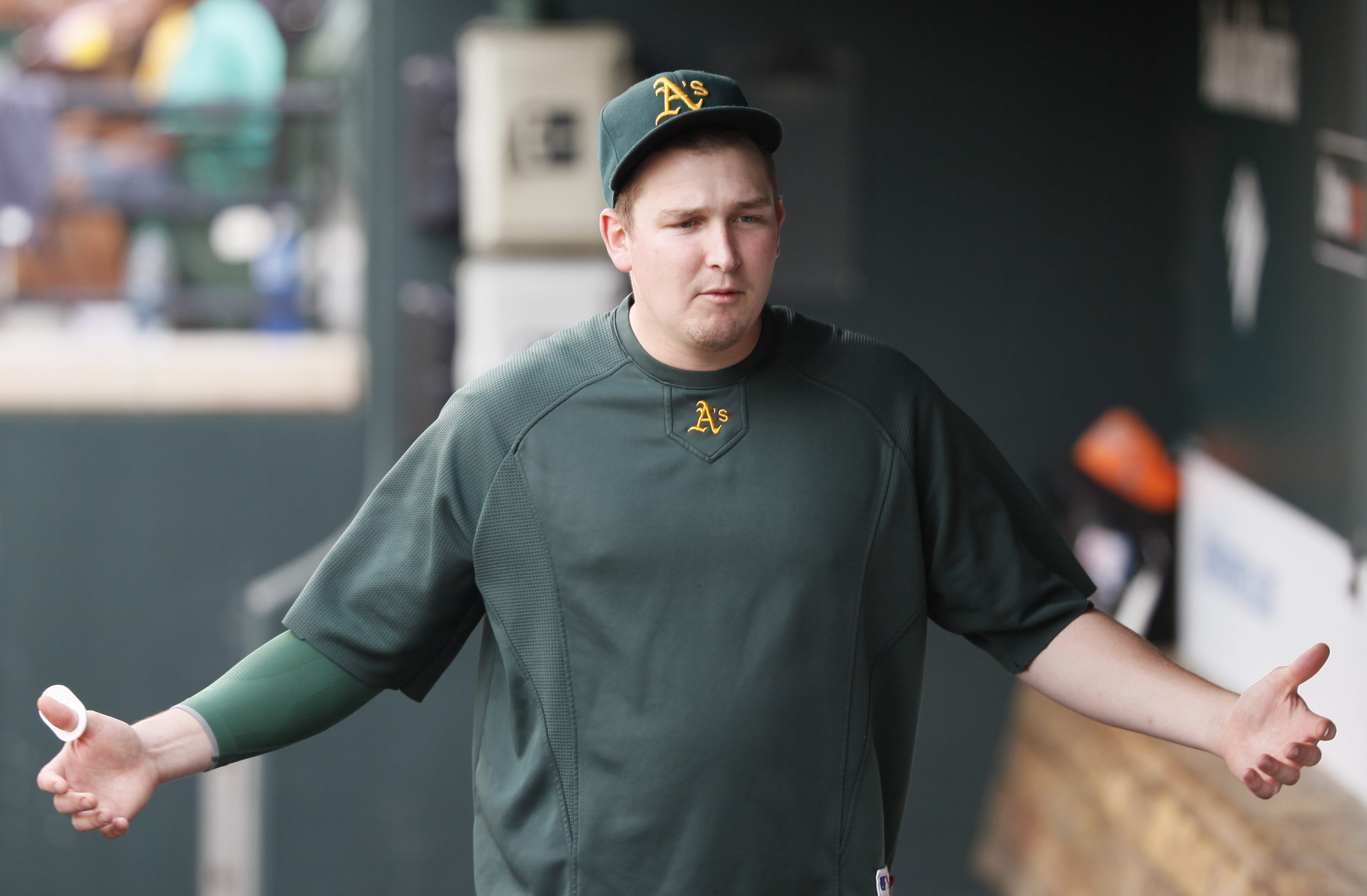 Trevor Cahill